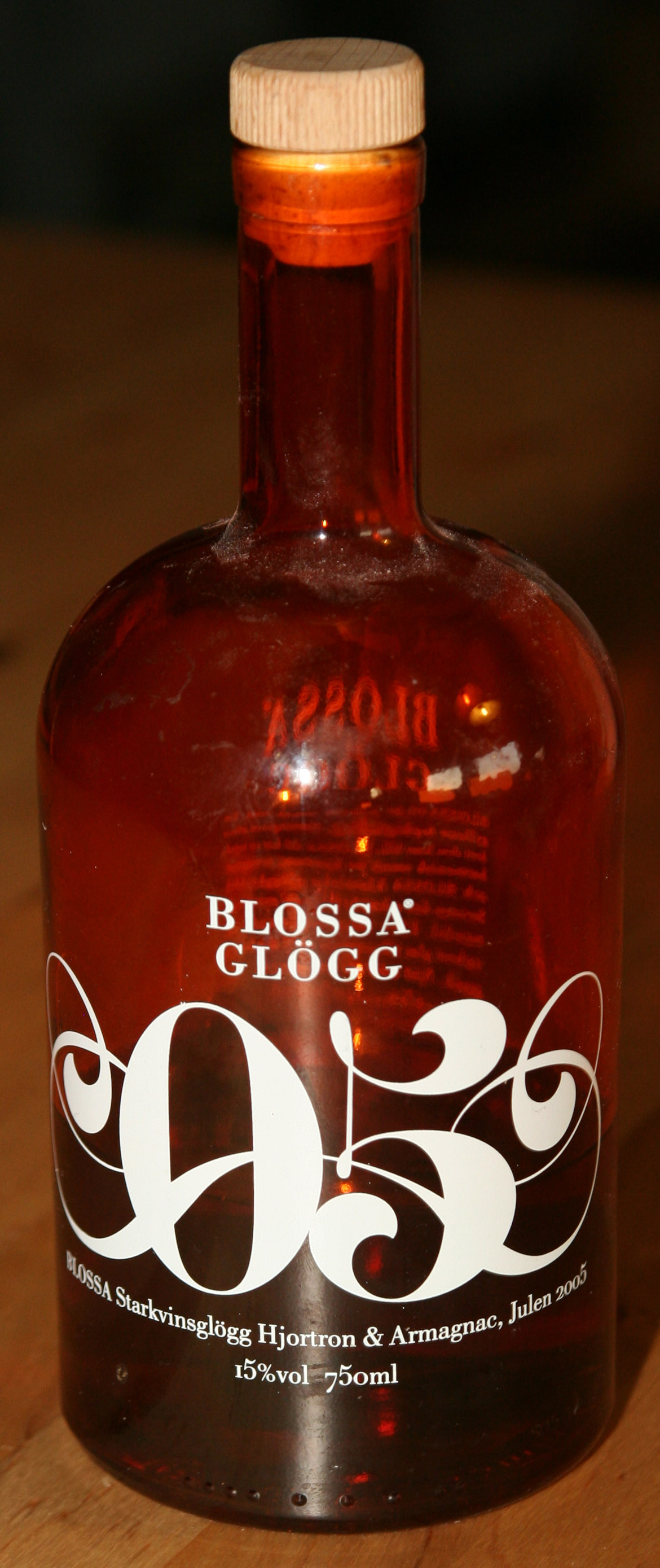 Blossa's glögg of the year 2005, cloudberry